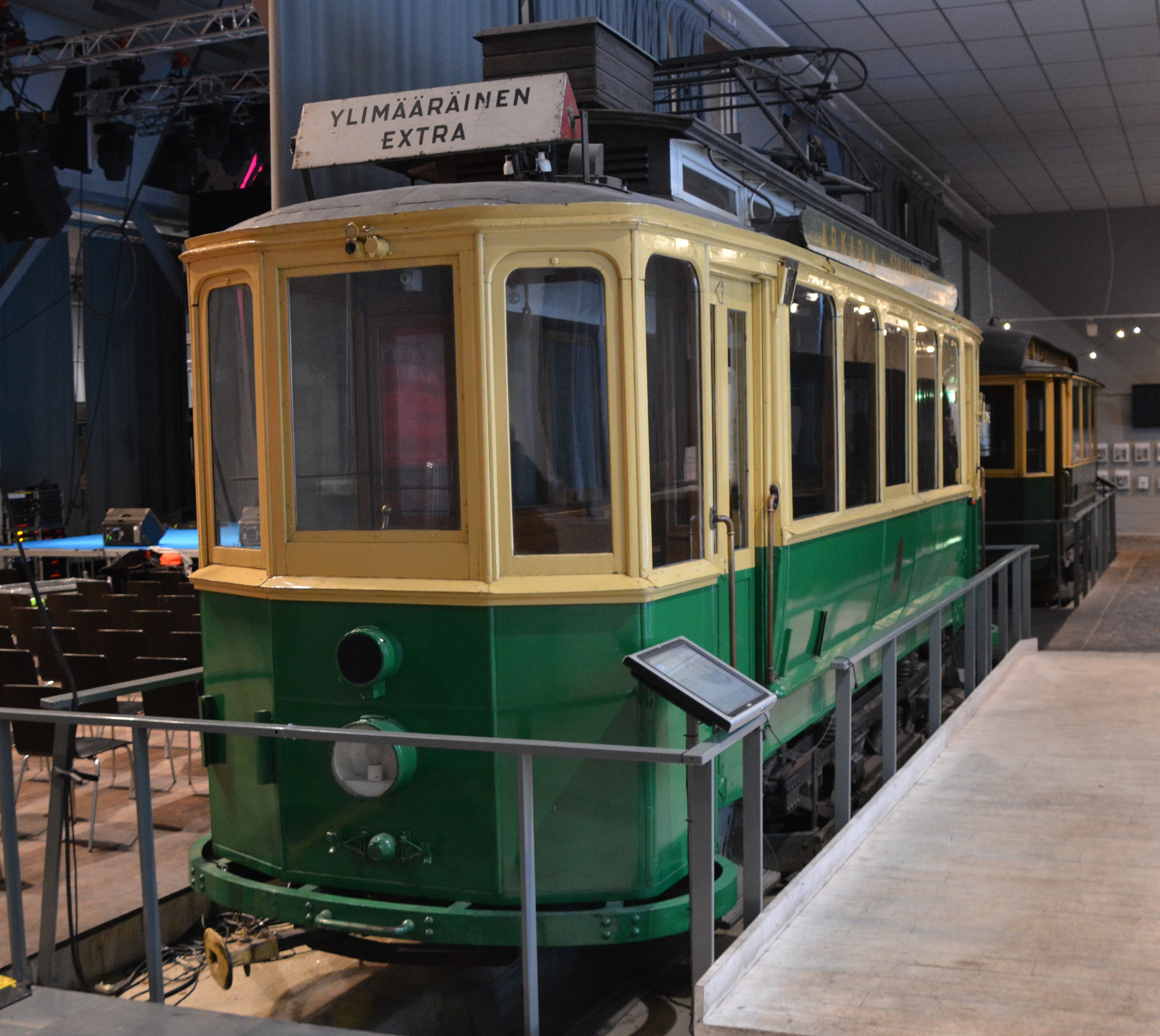 Helsinki tram museum, Asea tram (1930's)